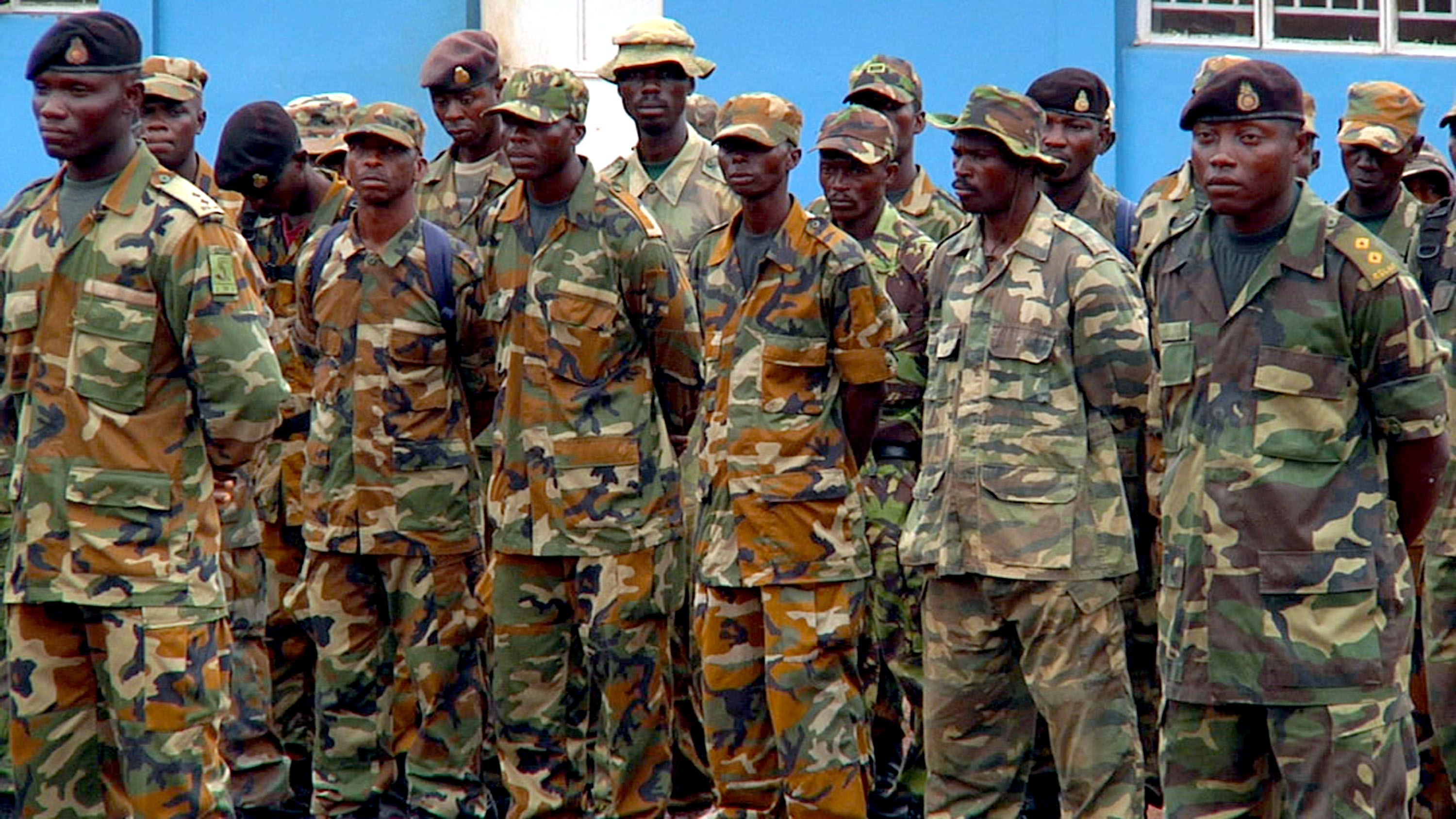 Nearly 1,000 Republic of Sierra Leone Armed Forces personnel completed training for an upcoming African Union Mission in Somalia (AMISOM) deployment, May 20. (U.S. Army Africa photo) To learn more about U.S. Army Africa visit our official website at Official Twitter Feed: Official Vimeo video channel: Join the U.S. Army Africa conversation on Facebook